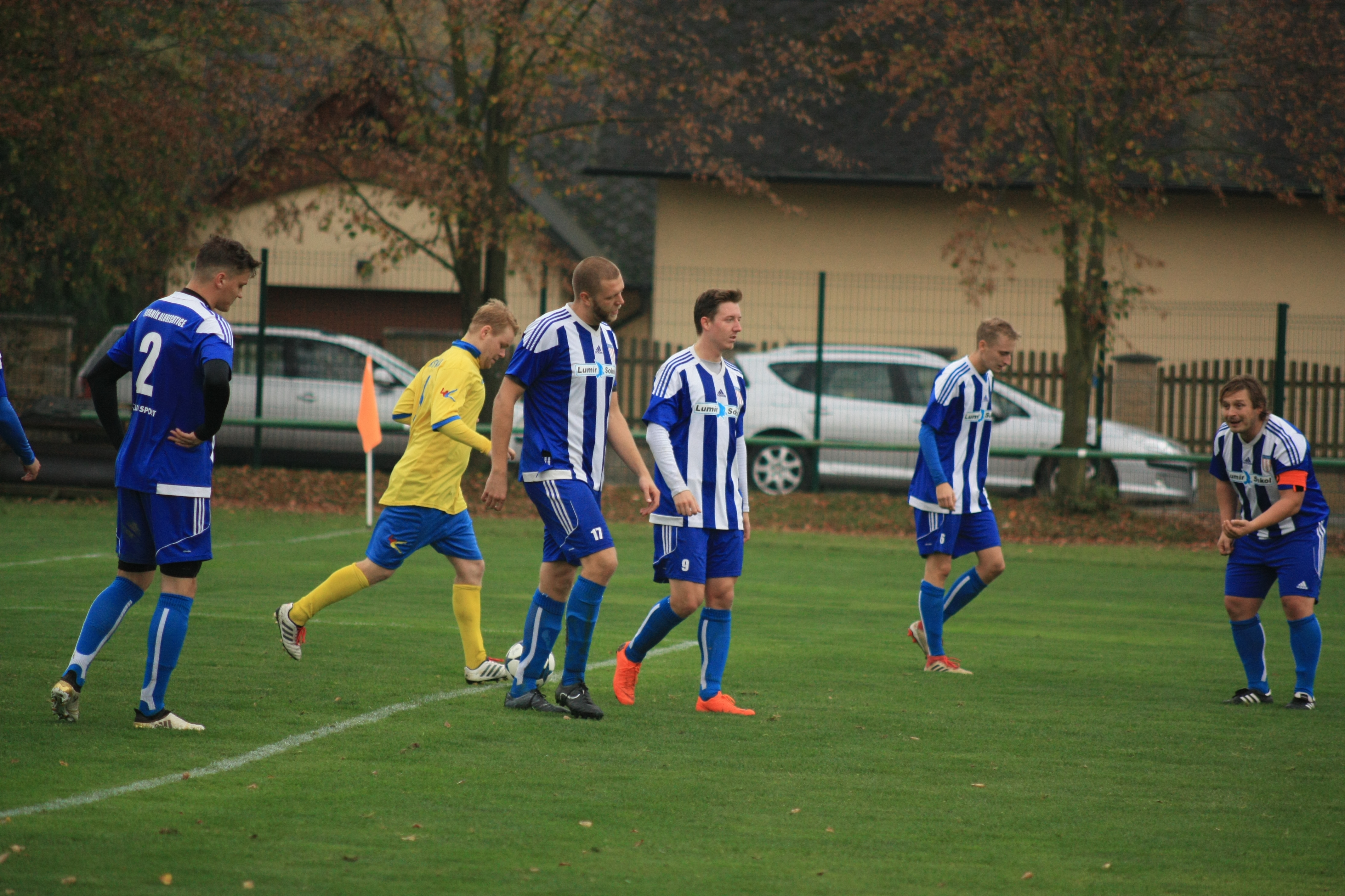 FK Baník Ostrava-SK Stonava match (2:3) played on 22 October 2018